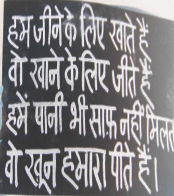 A Hindi sign in support of Anna Hazare's fast against corruption at Ramlila Grounds, New Delhi on August 27, 2011.